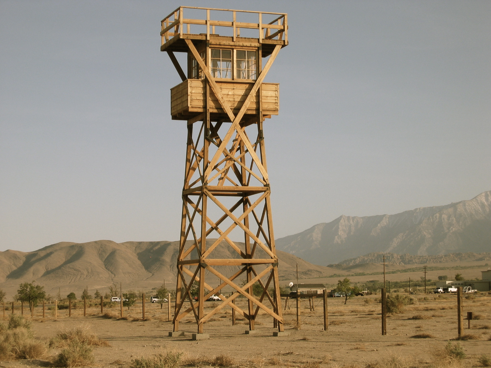 Replica of an historic watch tower at the Manzanar National Historic Site, built in 2005. Eight watchtowers, equipped with searchlights and armed with machine guns that were pointed inward at the prisoners, were positioned around the perimeter of the World War II American concentration camp.